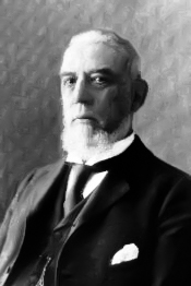 A photograph of Cornelius C. Beekman, a banker and philanthropist in Jacksonville, Oregon, born in Dundee, New York.